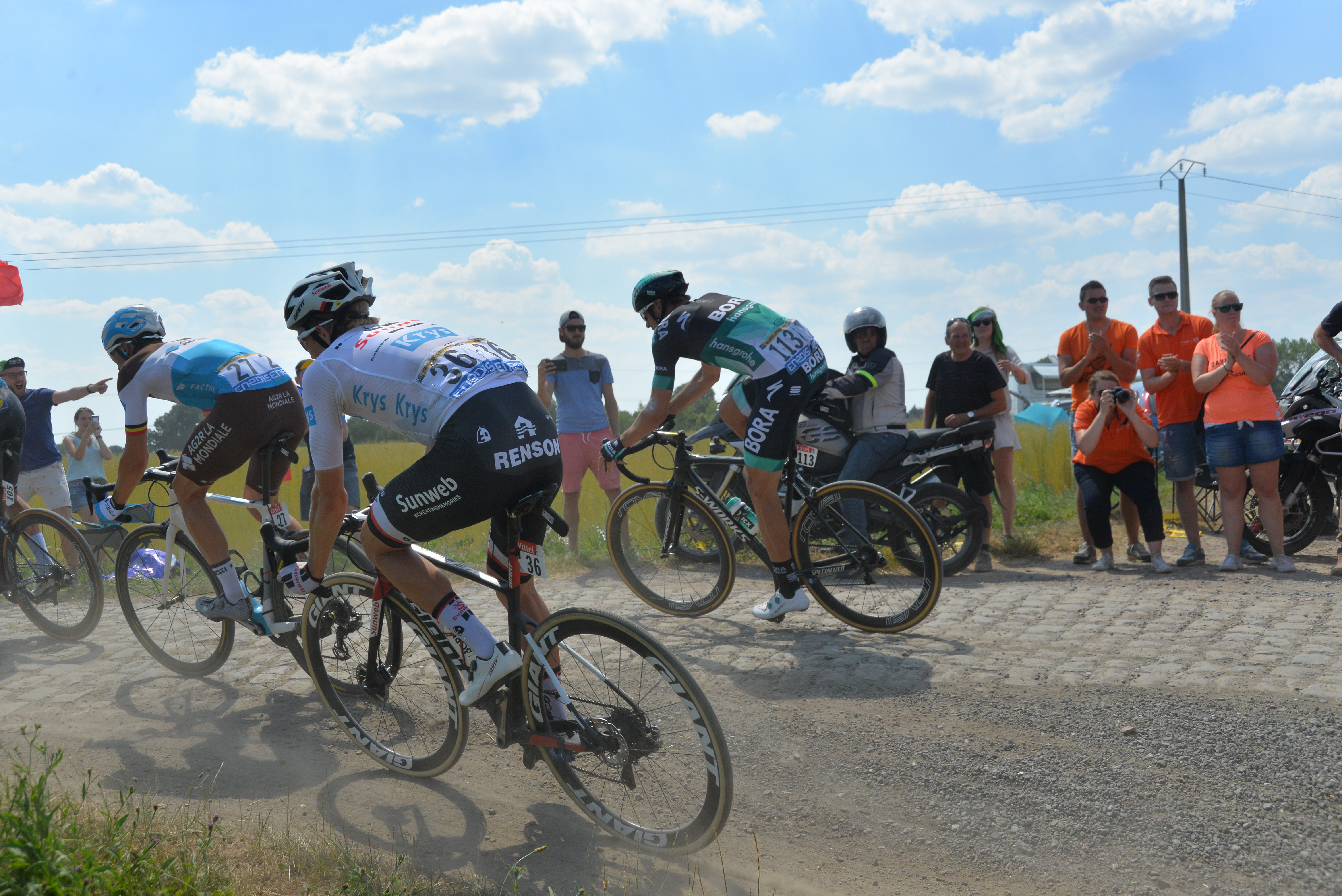 2018 Tour de France – stage 9 sector 9